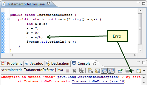 Erro de execução de uma aplicação Java na Eclipse IDE